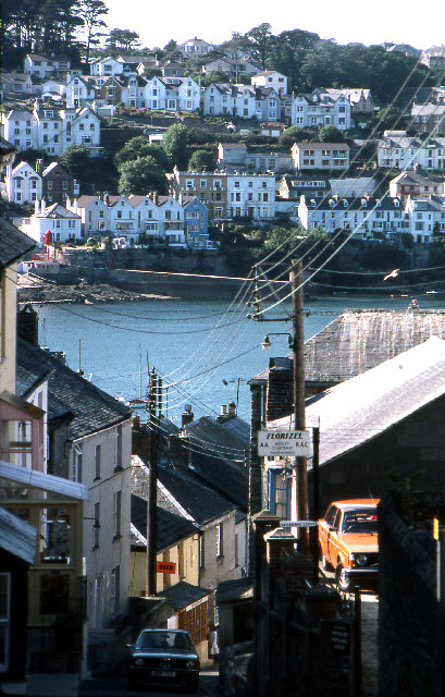 Polruan Fore Street 1979. View towards Fowey.